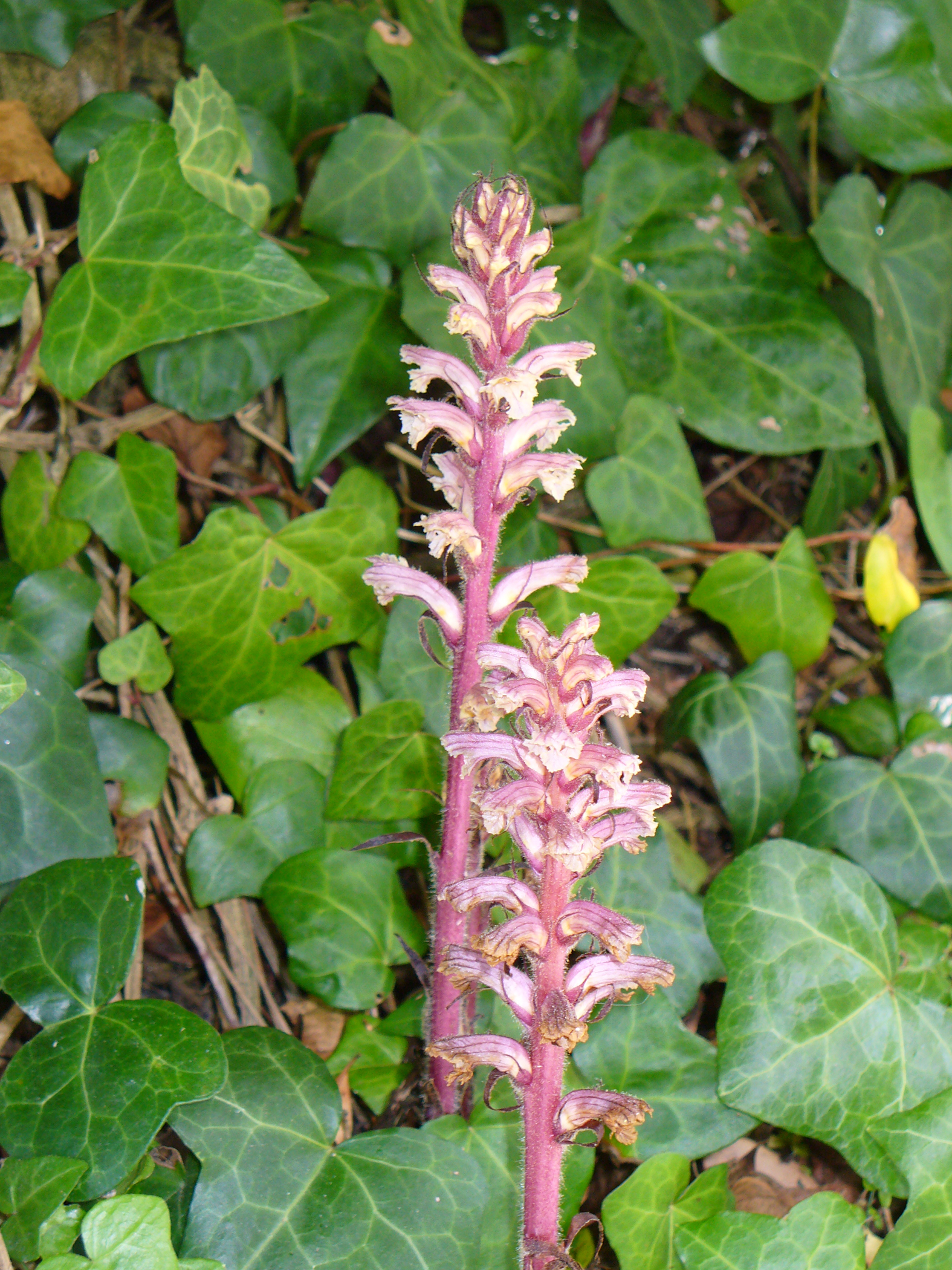 Orobanche hederae parasitic on Hedera hibernica (Atlantic Ivy), whose green leaves are in the background of this photo). vicinity of Fowey, Cornwall, UK.